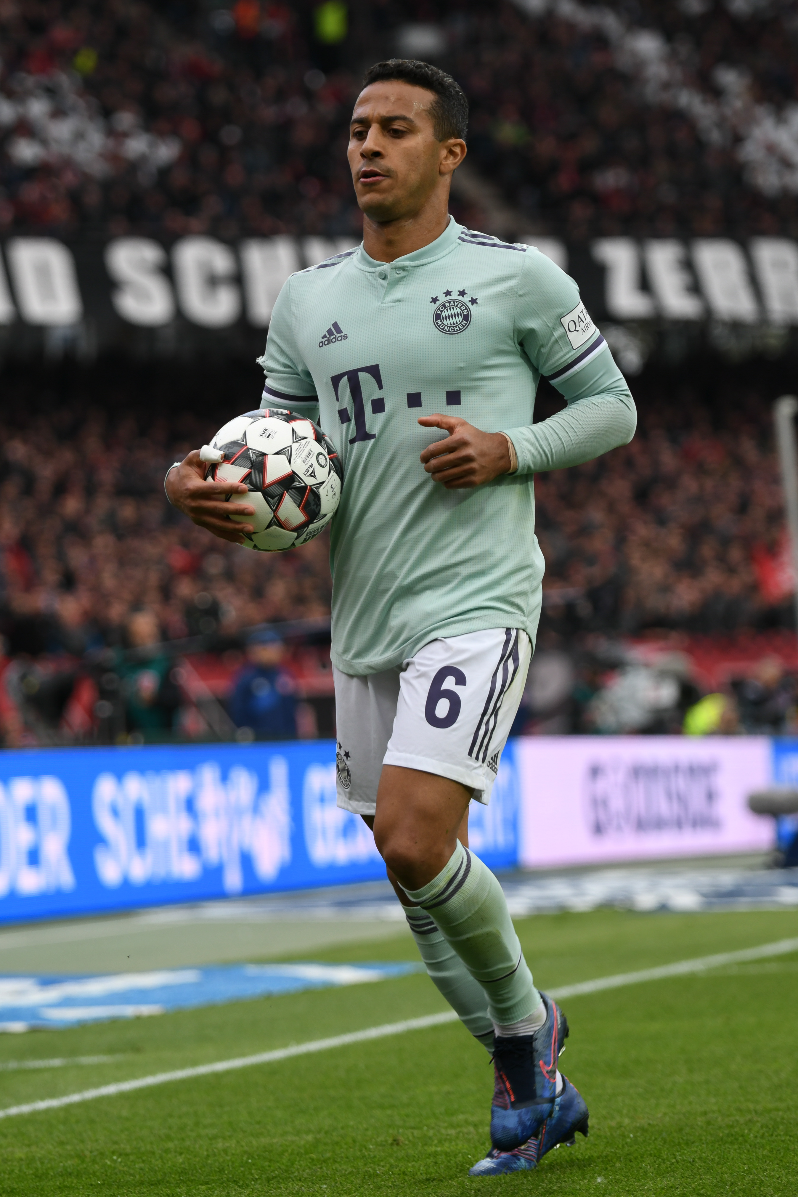 German Soccer League Season 2018/19, 31st match day 1. FC Nürnberg vs. 1. FC Bayern München. Picture shows: Thiago of Munich.